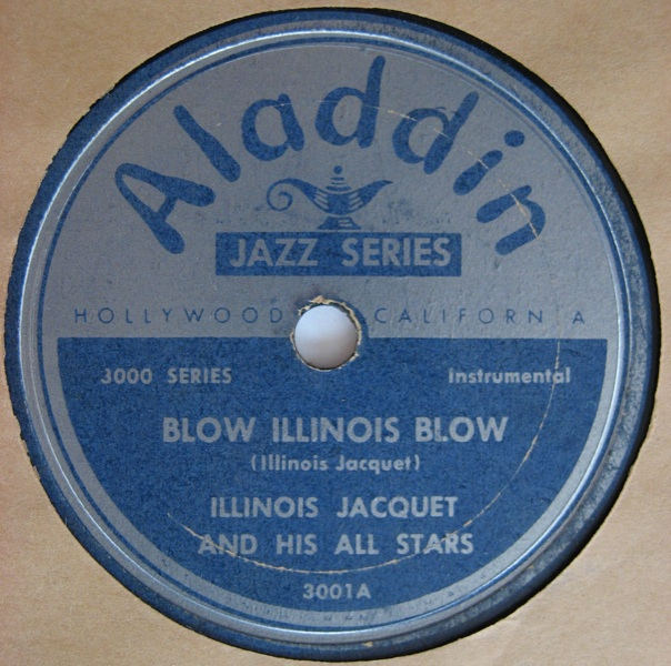 aladdin record illinois jacquet shellack